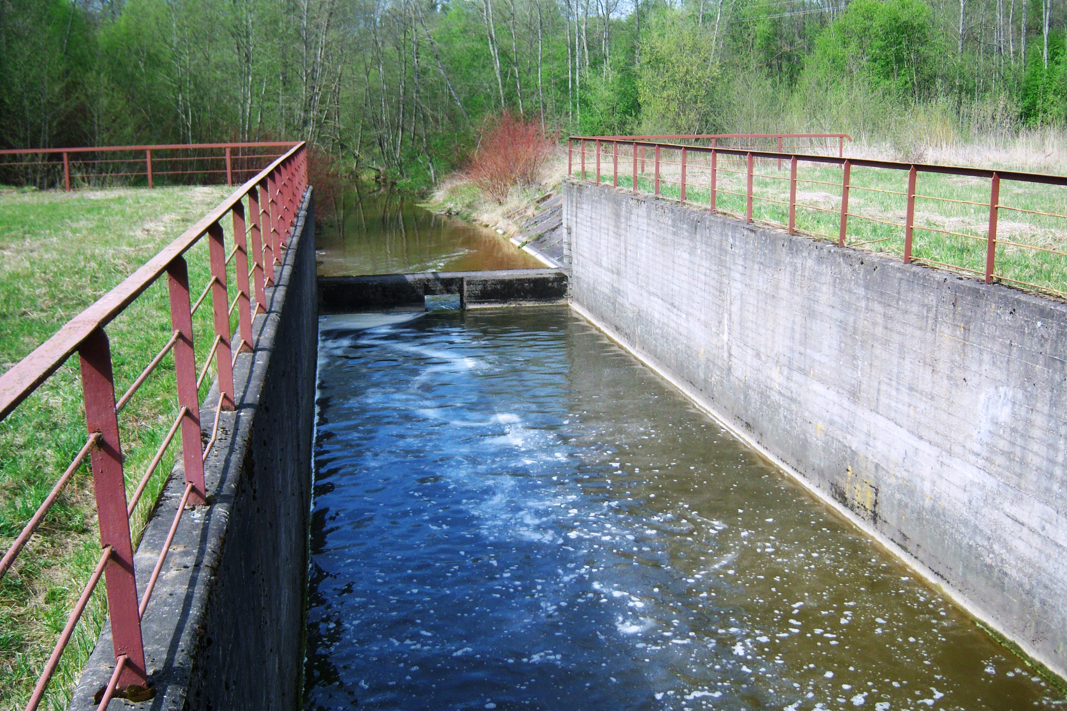 Dievogala River by the pond in Gaižėnai, Kaunas district, Lithuania